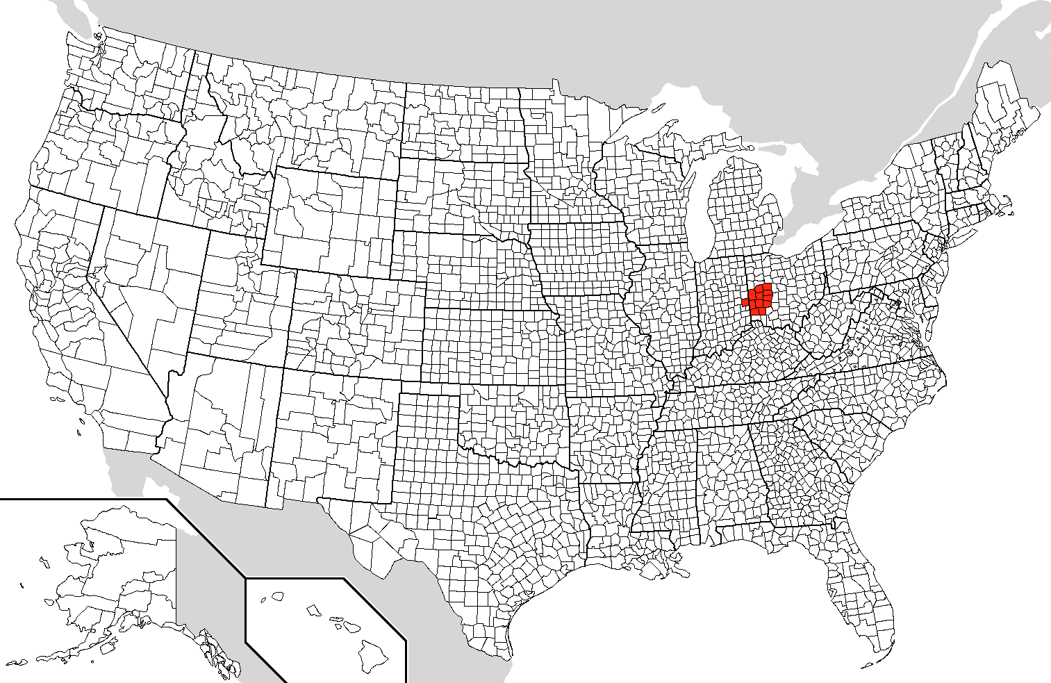 Location of the Miami Valley based on Image:Map of USA with county outlines (black & white).png